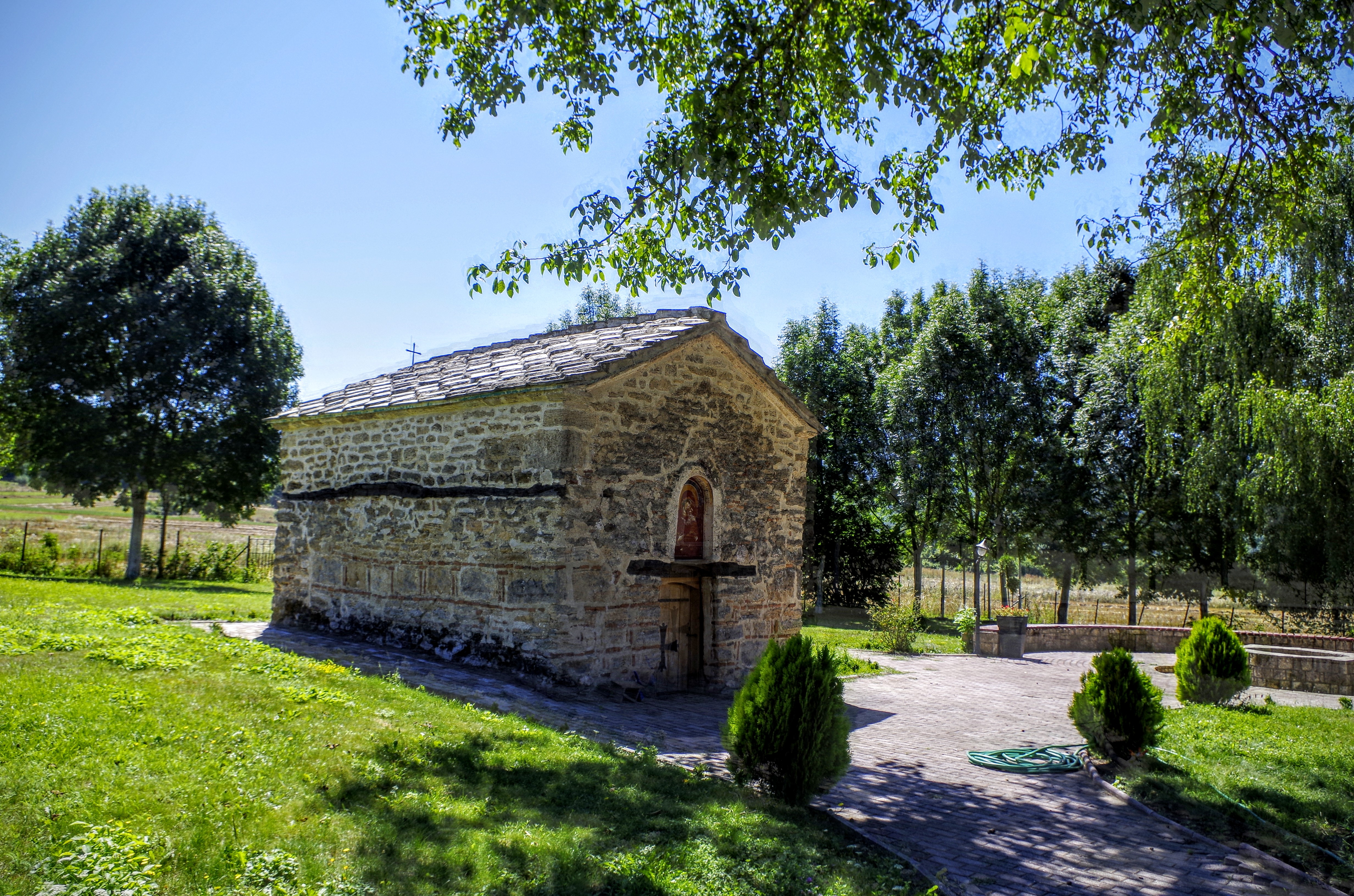 View of Holy Mother of God Church in the village Velmej, Macedonia